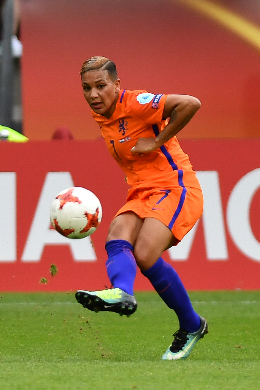 16/7/2017, Utrecht, Netherlands, sports, soccer, UEFA Womens Euro 2017 - The Netherlands vs Norway.